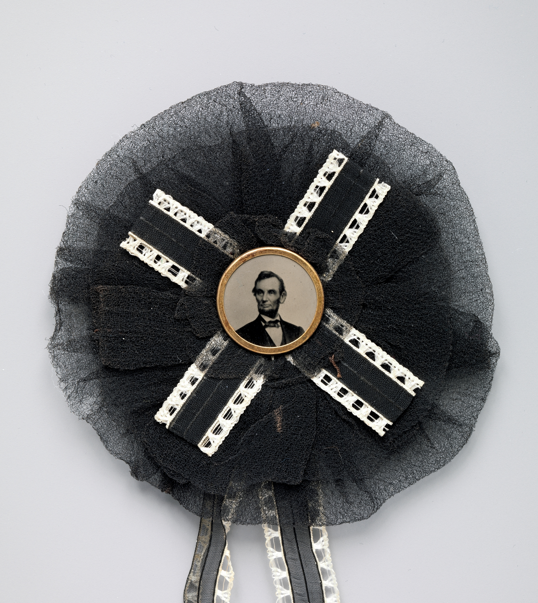 Photograph, corsage; Assemblages